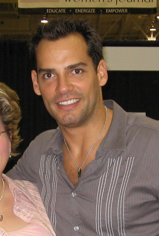 Cristian de la Fuente